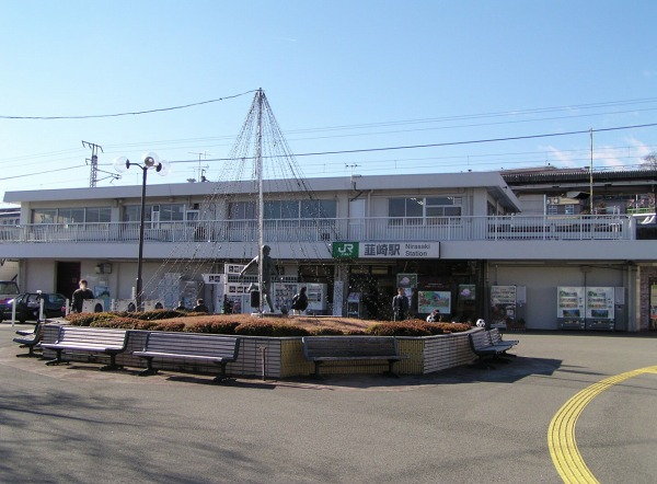 Nirasaki Station (Yamanashi, Japan).